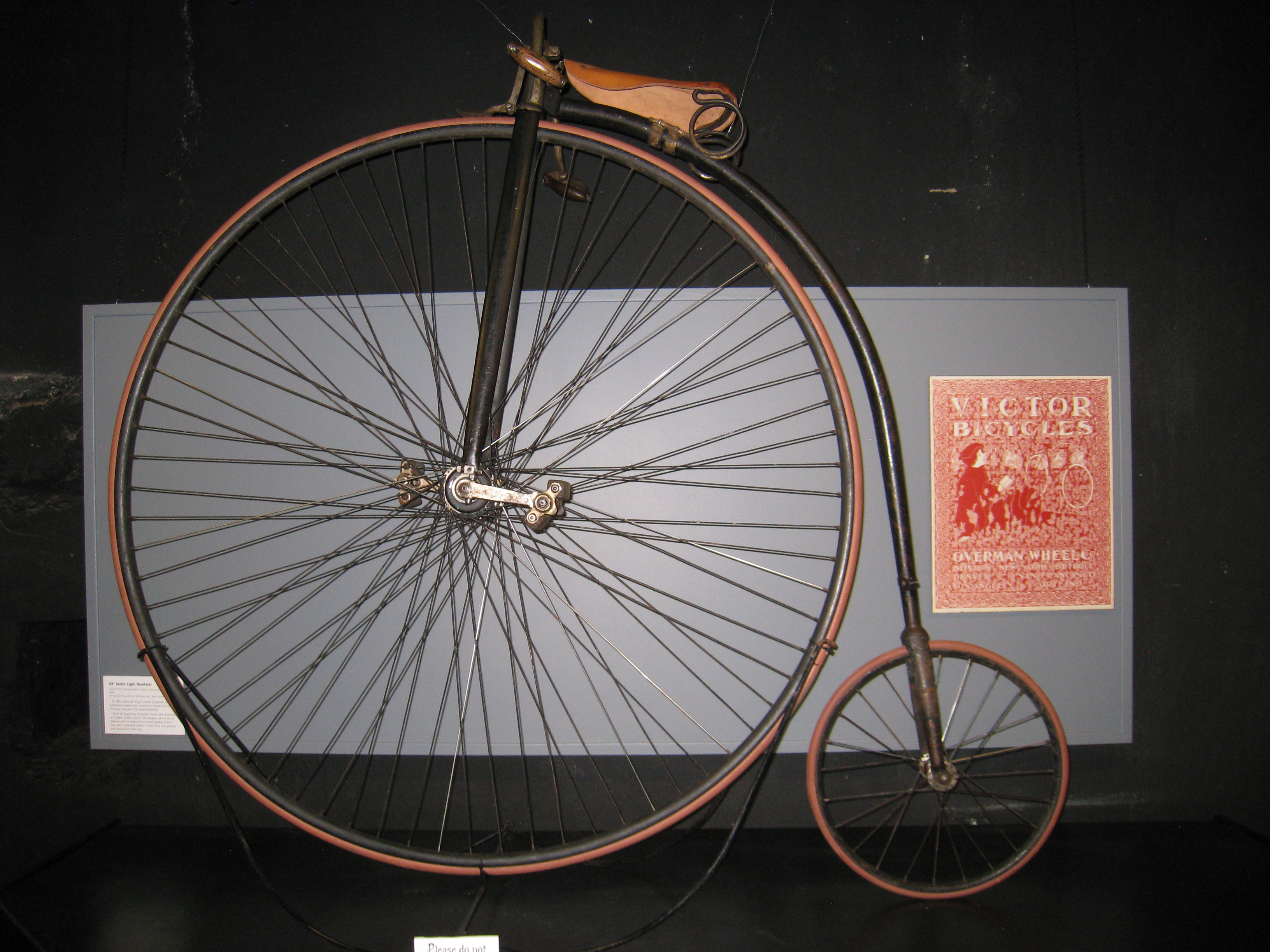 Victor Light Roadster, 53 inch, Overman Wheel Company, Chicopee, MA, 1889.